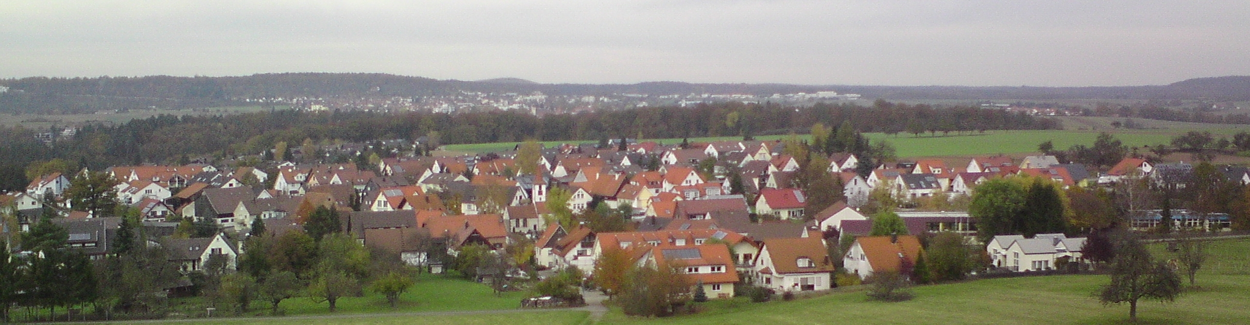 A picture of Neuweiler in Weil im Schönbuch.